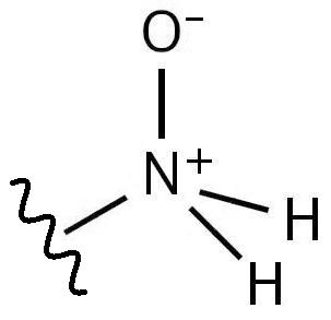 Azinoyl group